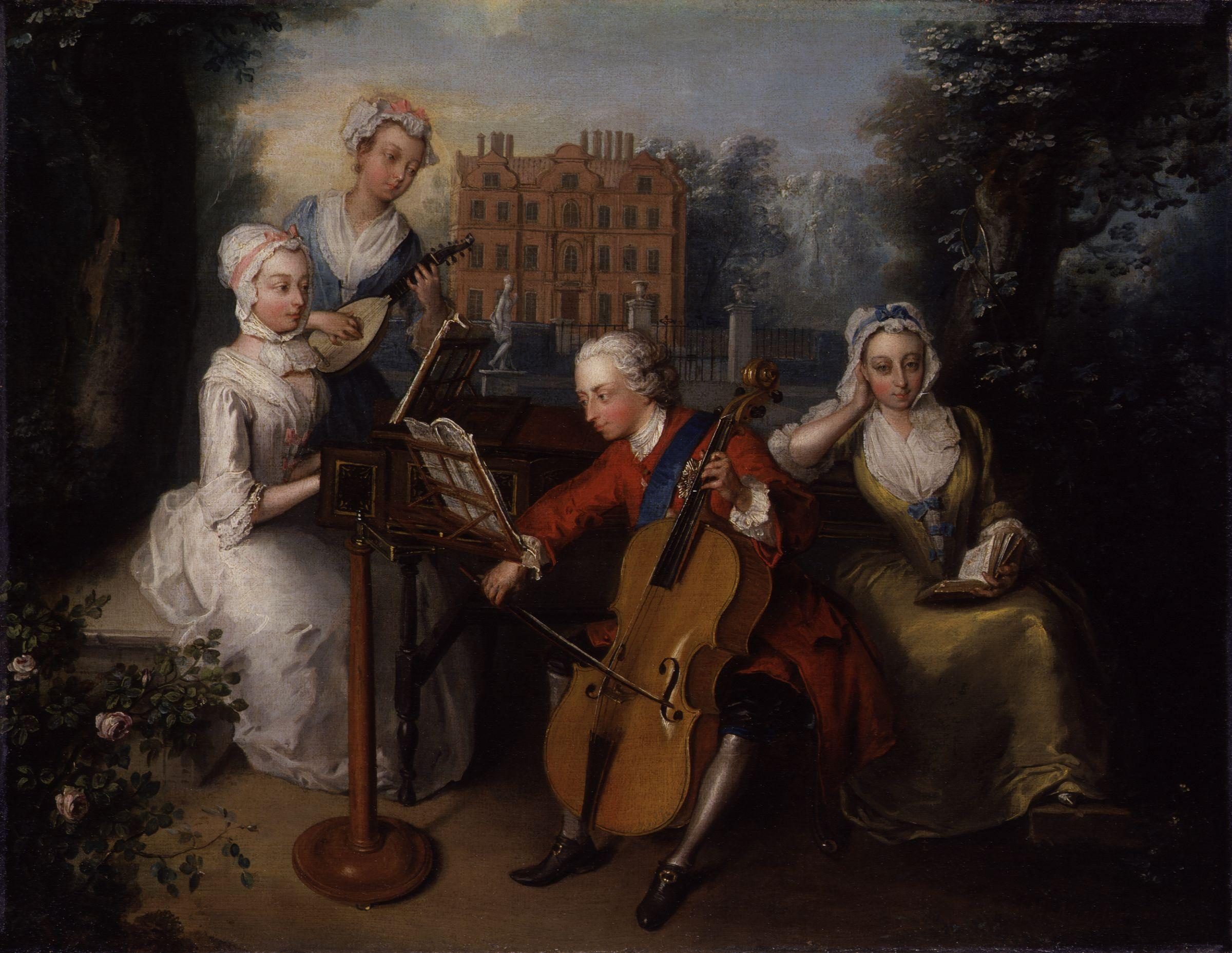 In this portrait the 26-year-old Prince is shown playing the cello with three of his younger sisters; from left to right, Anne, Princess Royal (age 24) at the harpsicord, Princess Caroline (age 20) plucking a mandora (a form of lute) and Princess Amelia (age 22) reading from Milton. In the background is the Dutch House or Kew Palace at Kew where Anne lived before her marriage in 1734 to Prince William of Orange. The suggestion of harmony between the siblings belies the antipathy felt by his family for Frederick; it is said that he was hardly on speaking terms with Anne in the year that this portrait was painted.